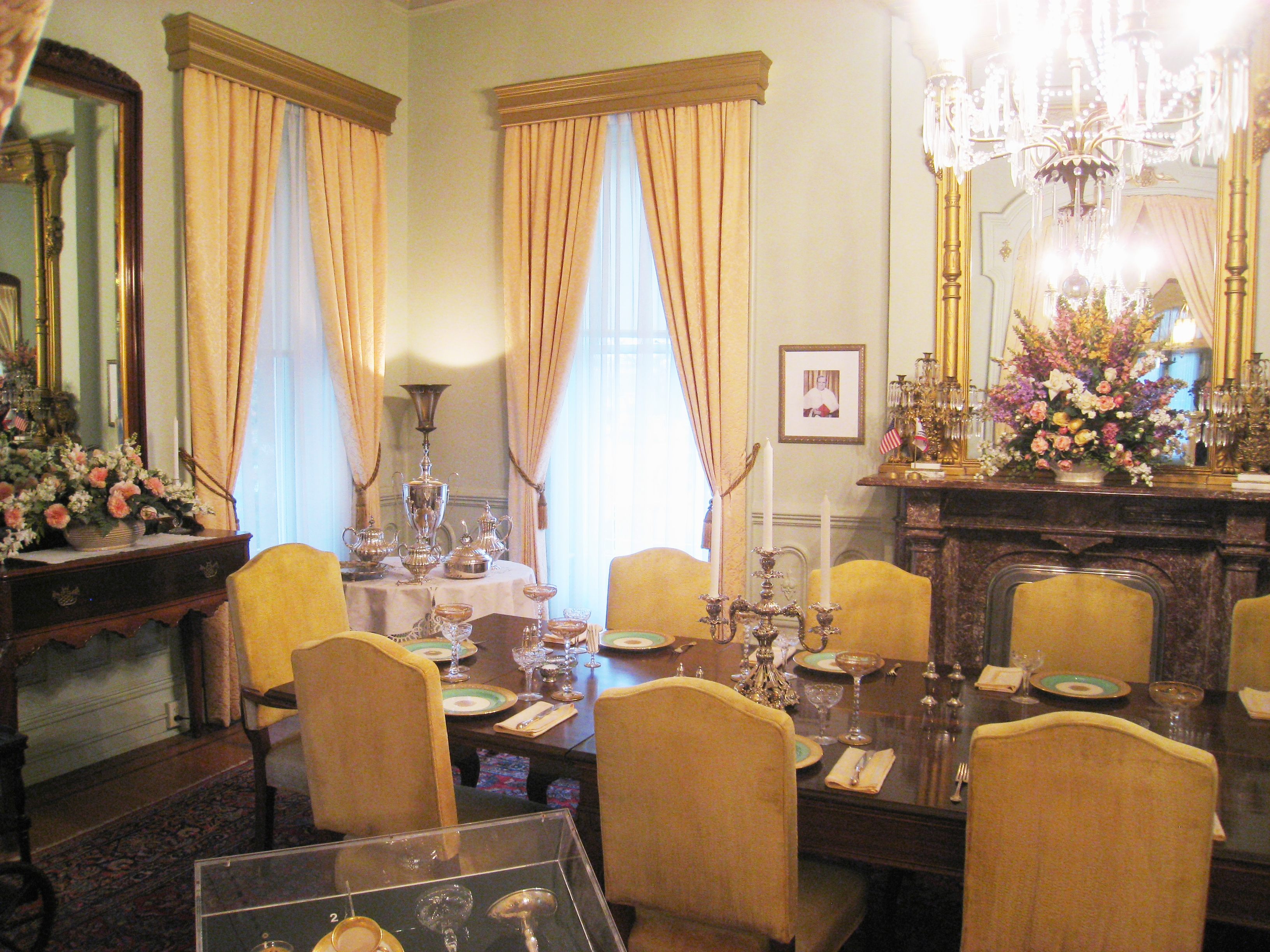 Dining room - Governor's Mansion State Historic Park, 1526 H Street, Sacramento, California, USA. The former governor's mansion, built in 1877 for Albert and Clemenza Gallatin. Photography was permitted without restriction.